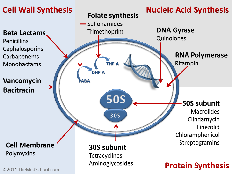 This depicts the site of action of some of the major categories of antibiotics.